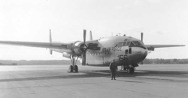 Kaiser-Frazer C-119F-KM Flying Boxcar 51-8156. 902d Troop Carrier Group Grenier Air Force Base, Massachusetts. The last USAF plane to fly out of Grenier Air Force Base, January 1966